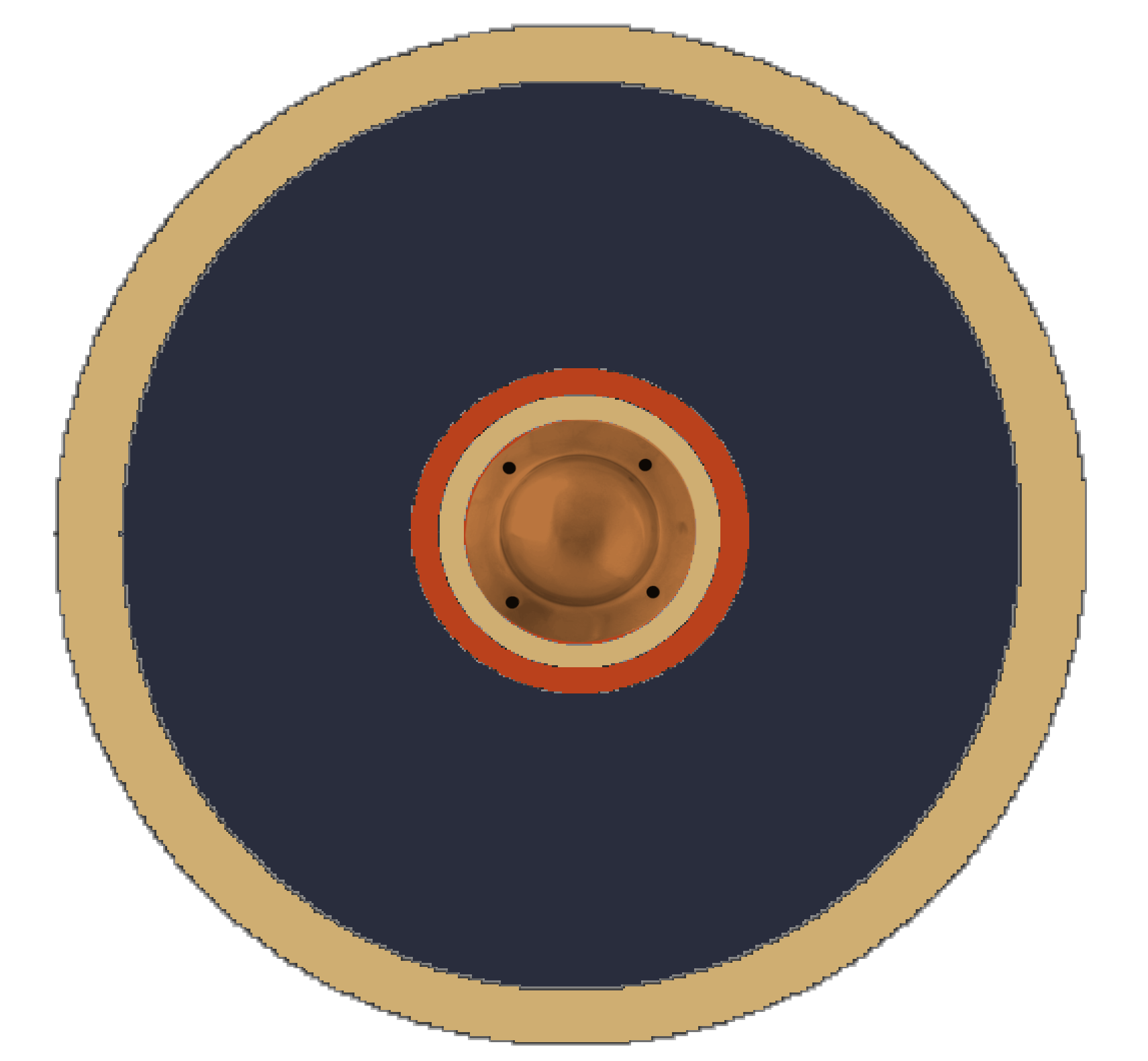 Shield pattern o.t. Sabini, an auxilia palatina units listed in the in the western portion of the Notitia in the Magister Peditum's infantry roster; it is assigned to his Italian command.